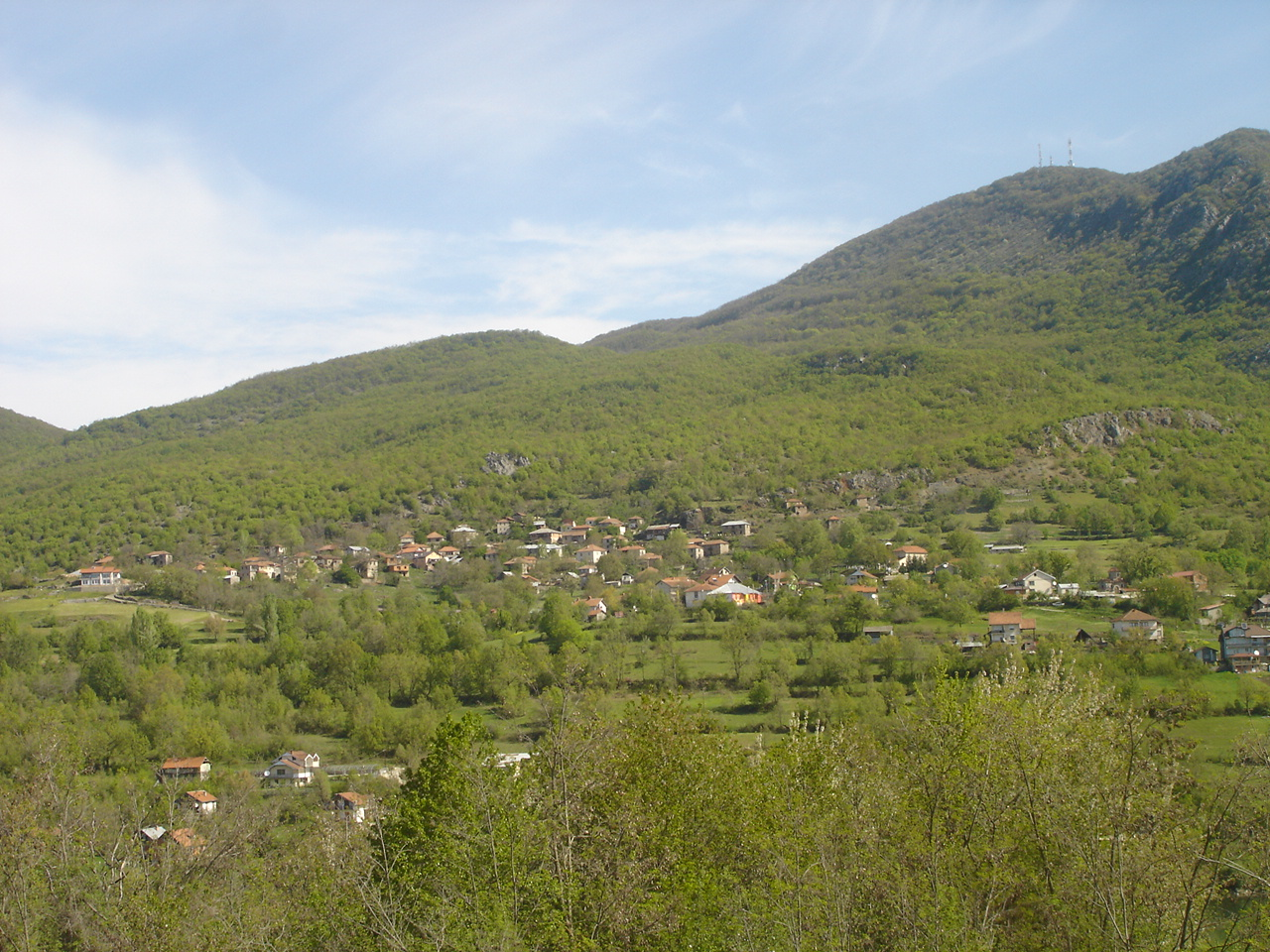 village of Tašmaruništa, in Drimkol region, near Struga, Macedonia